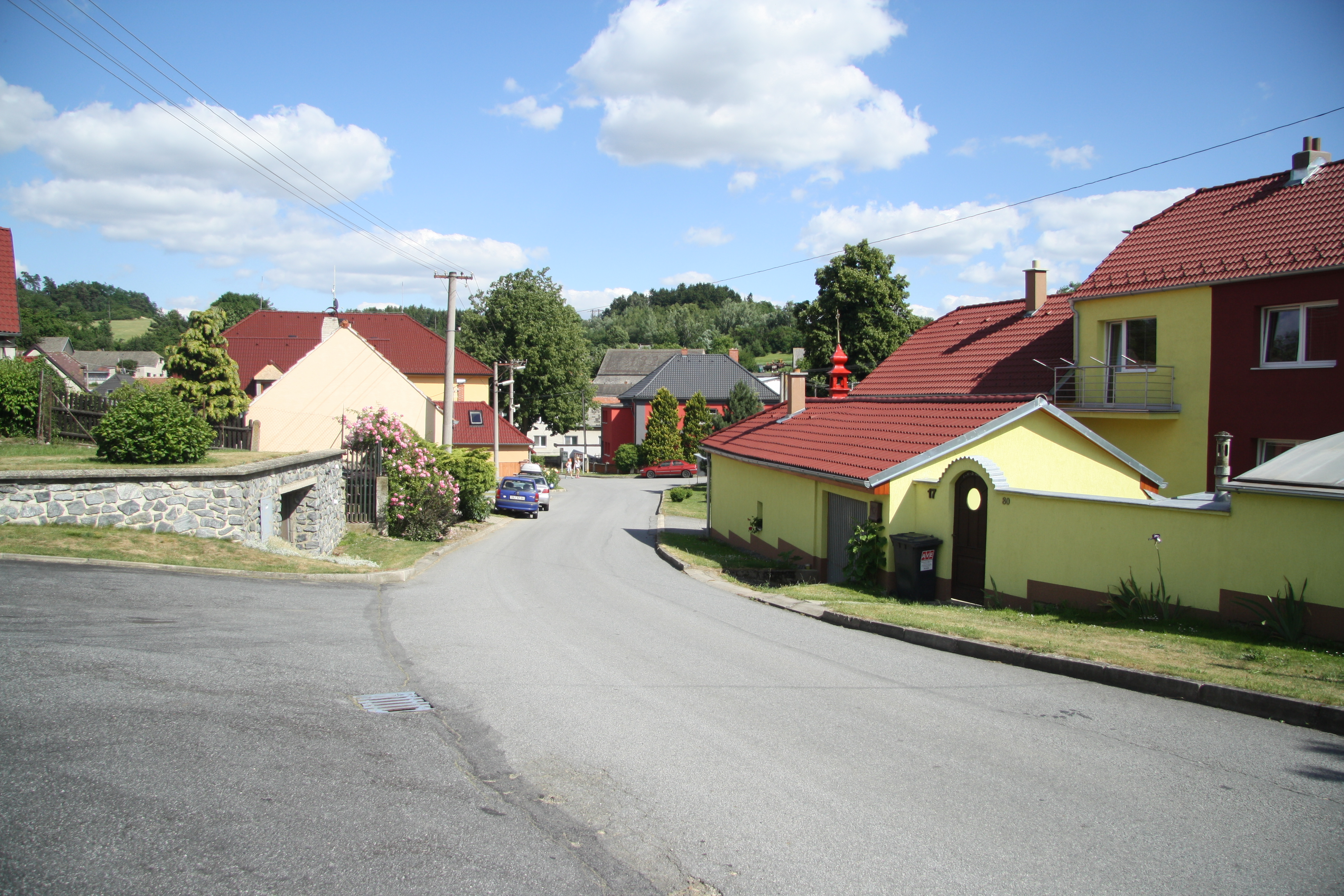 Center of Mastník, Třebíč District.